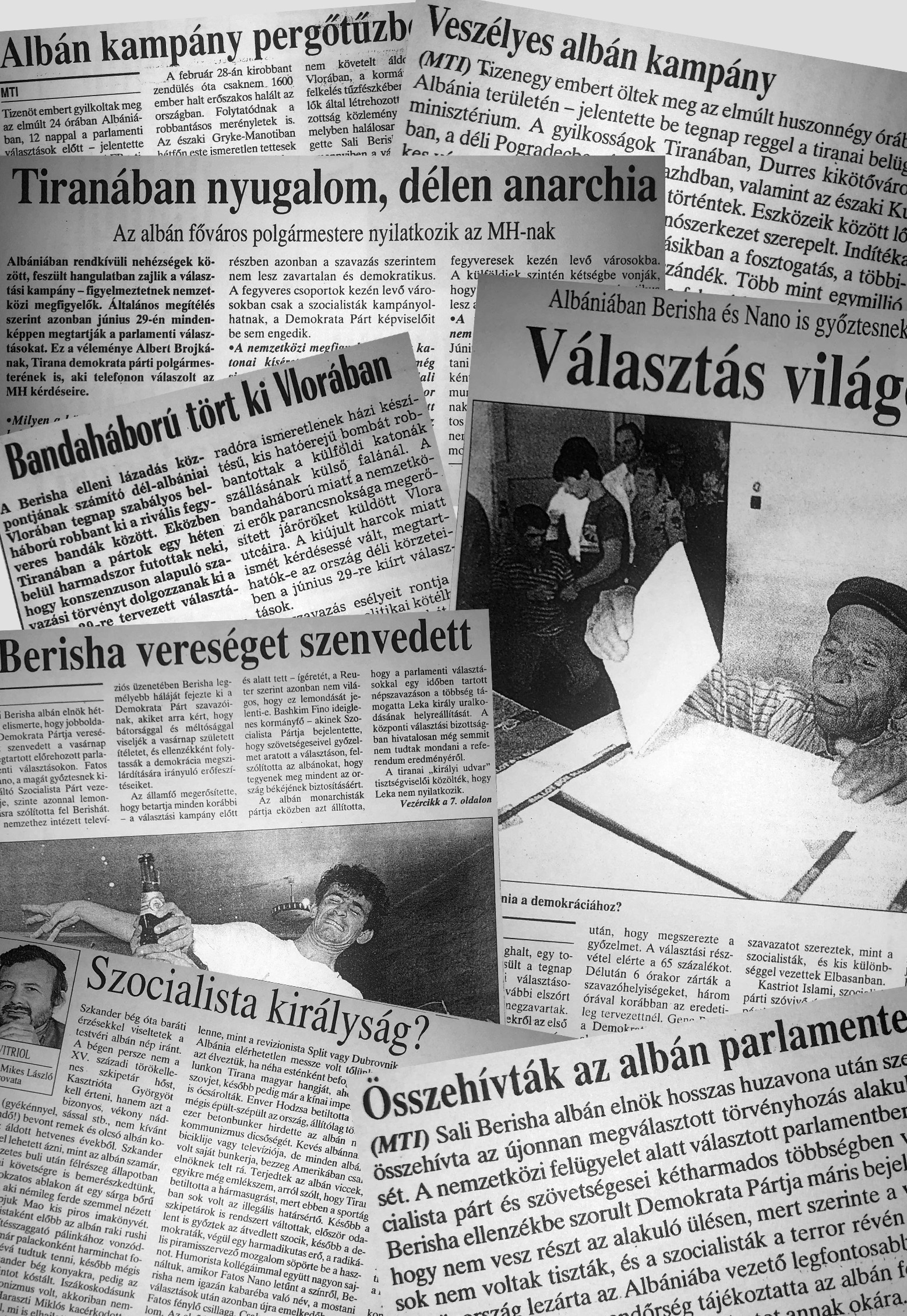 The Hungarian press coverage of the controversial 1997 Albanian parliamentary elections in Albania